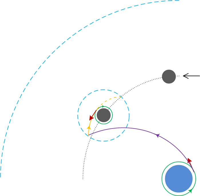 Physical Model of video game Kerbal Space Program